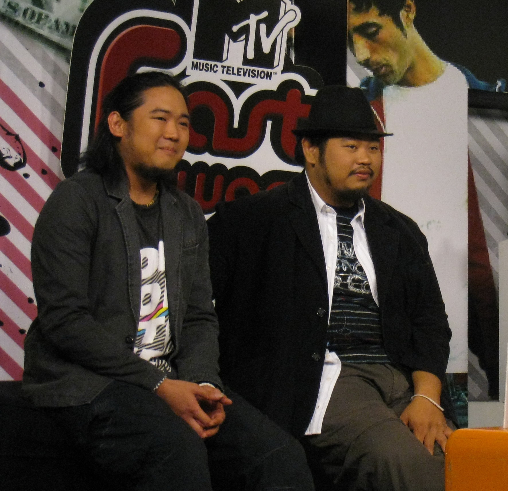 Calories Blah Blah at MTV Fast Forward